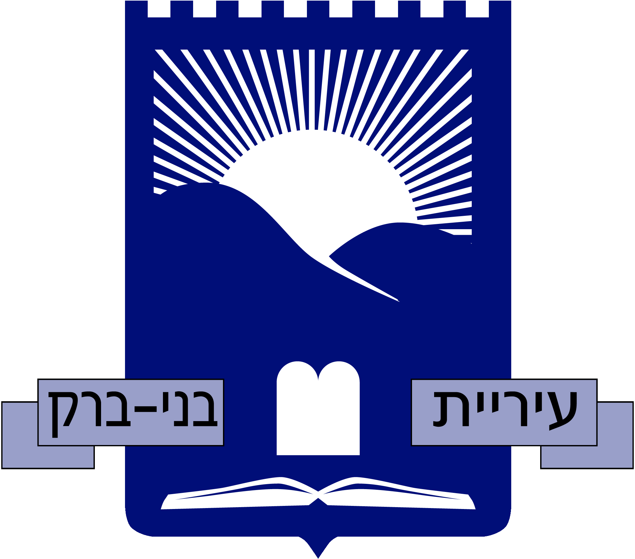 Coat of arms of Bnei Brak